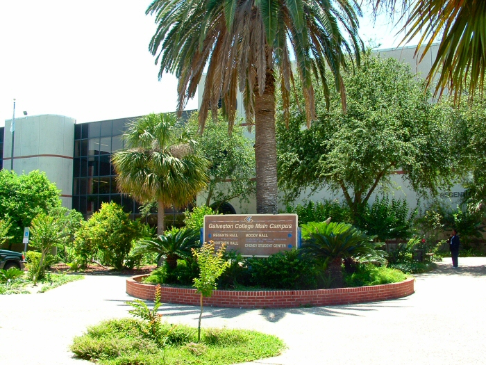 Galveston College Photo By: Nick Saum